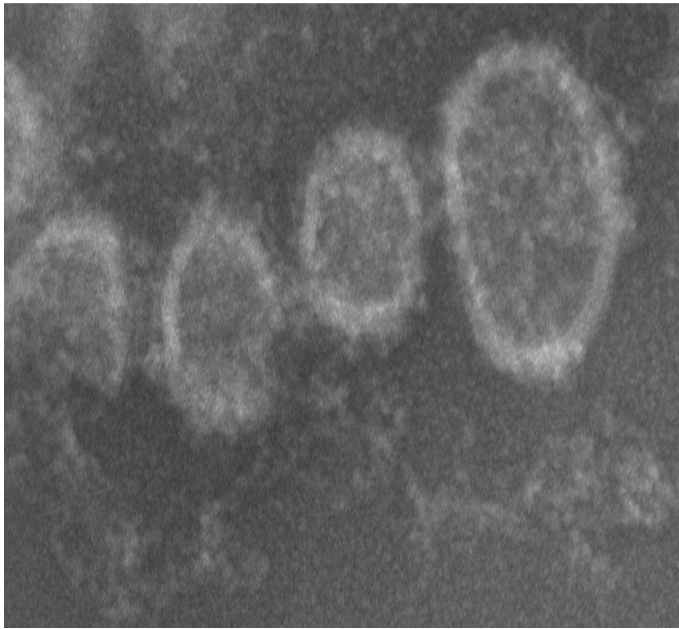 This is the tomato spotted wilt virus